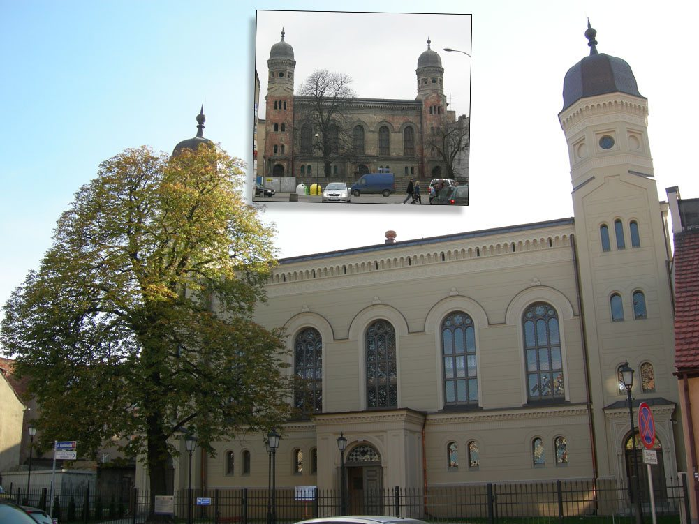 Synagogue of Ostrów Wielkopolski in Poland